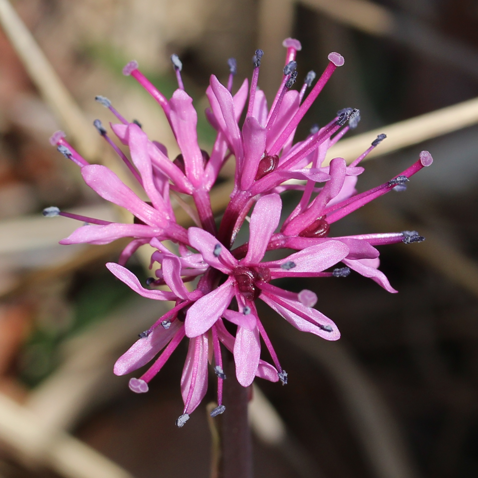 Heloniopsis orientalis in Yumihari Mountains